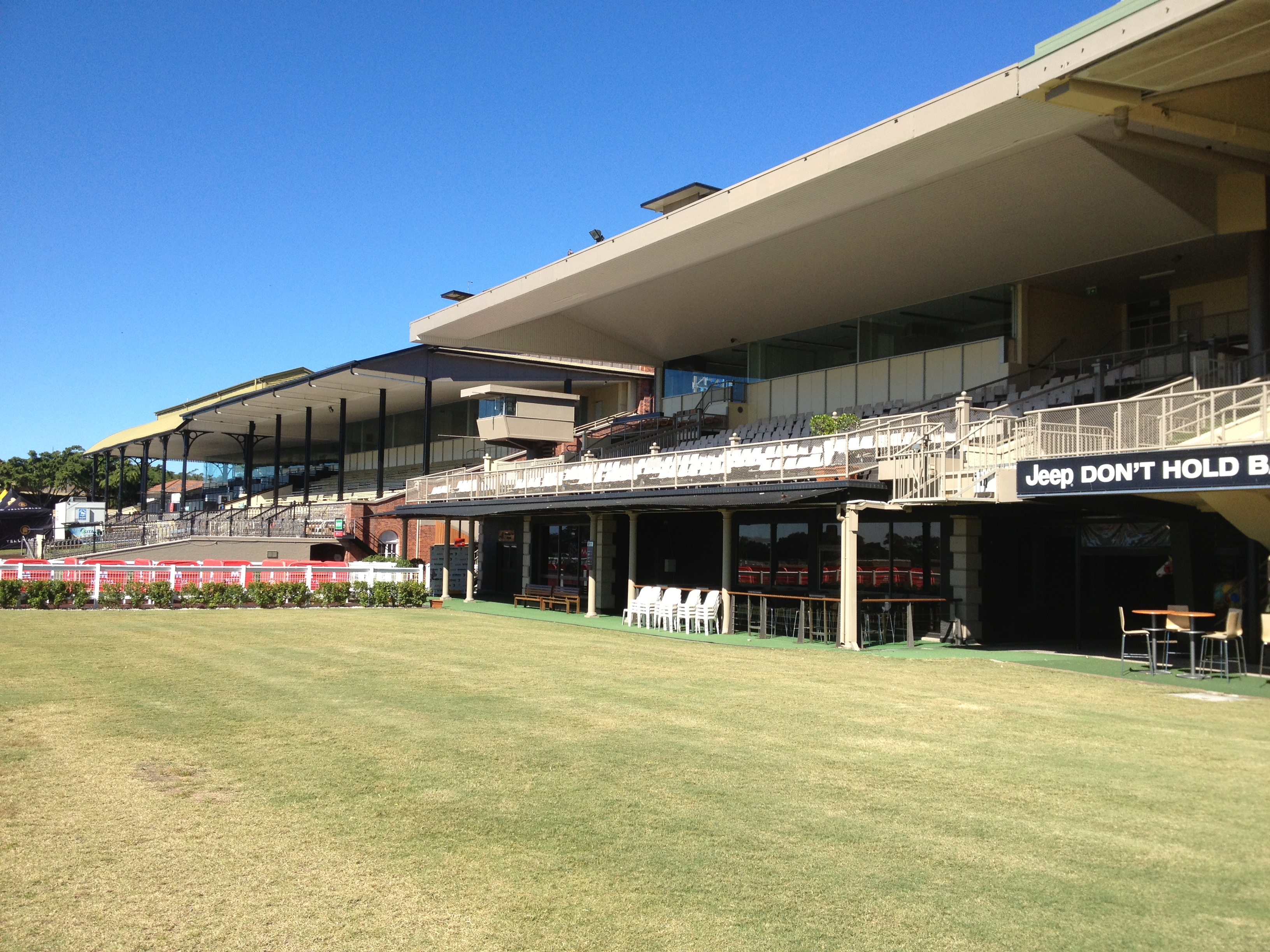 View of Members' Stand, Eagle Farm Racecource, May 2013